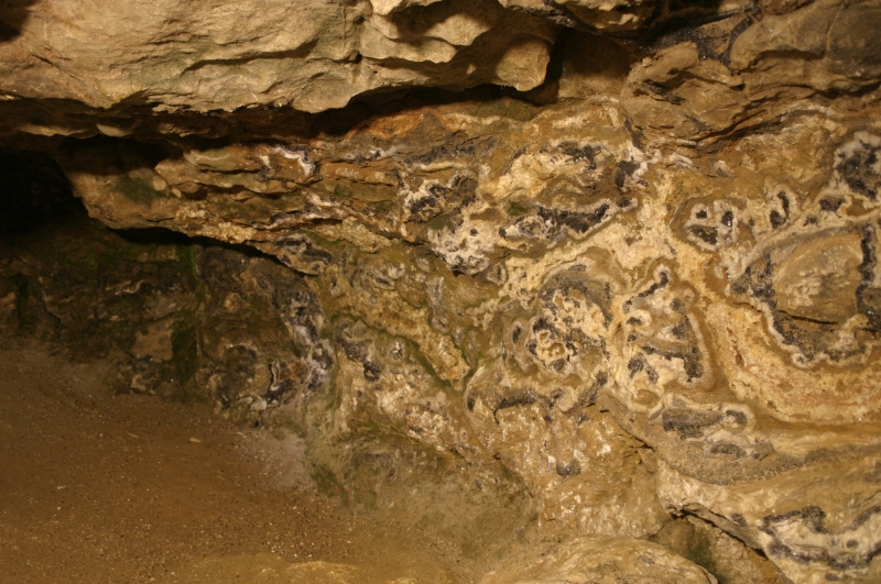 Blue John (or Derbyshire Spar; a form of fluorite) Veins in the Blue John Cavern